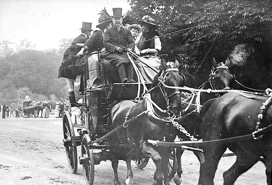 "Lord Leconfield and Coach" An undated image, from the Bain News Service, of Charles Wyndham.